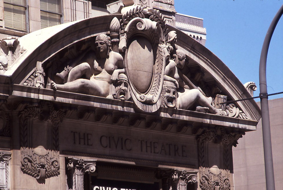 photo by Einar Einarsson Kvaran, aka Carptrash 00:56, 3 January 2007 (UTC).